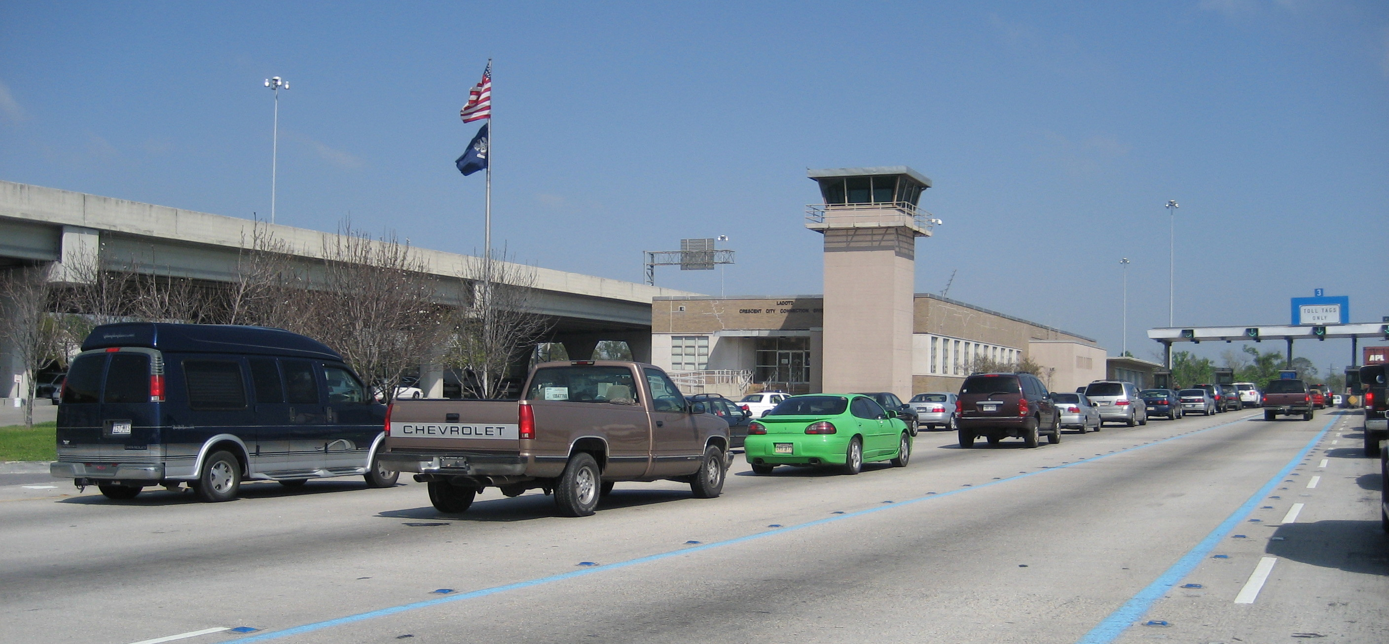 West Bank toll plaza leading to the Crescent City Connection bridge over the Mississippi River at New Orleans Louisiana.